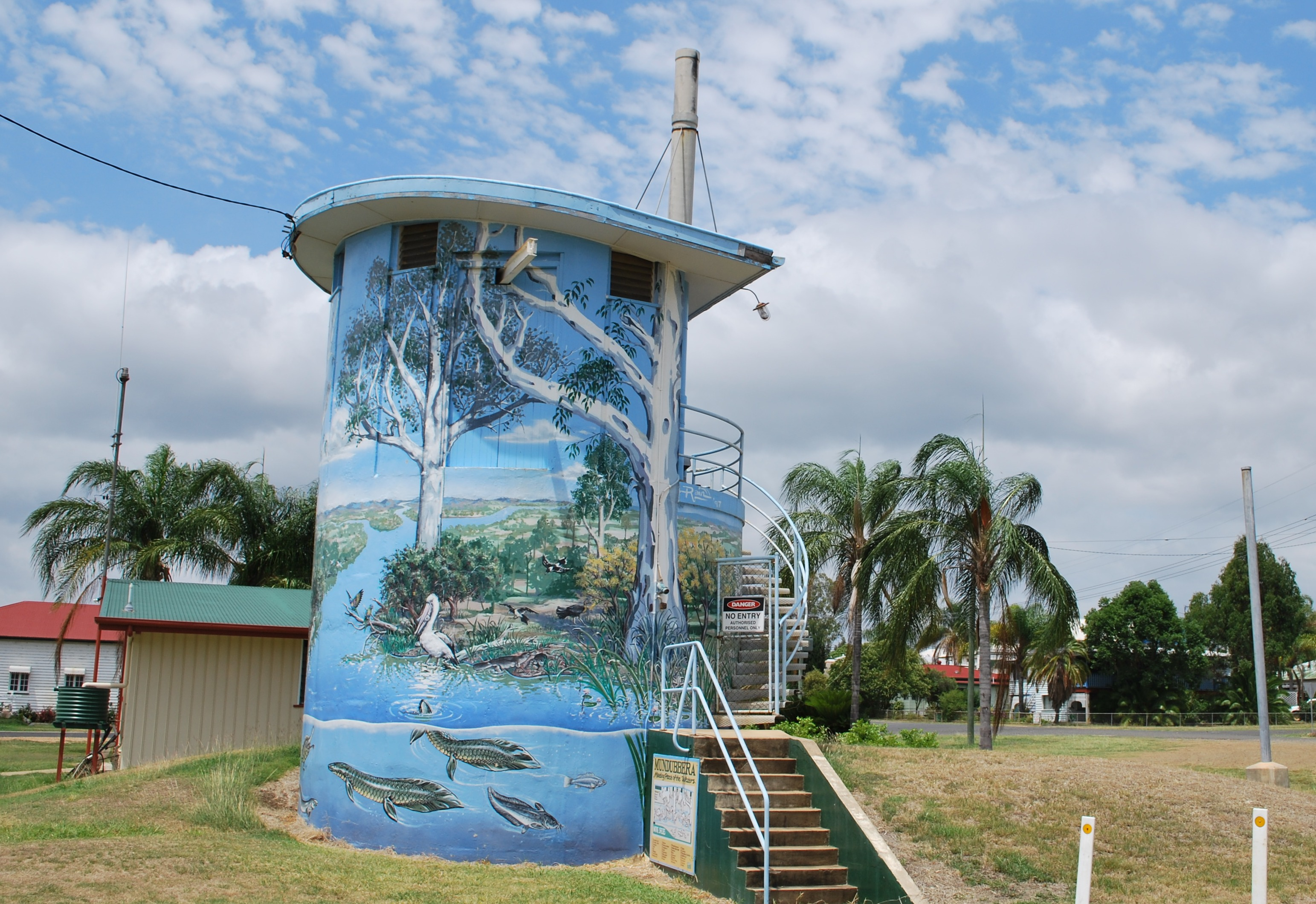 The 360° mural on a sewer pumping station at Mundubbera, Queensland, depicting the meeting of the Auburn, Boyne and Burnett rivers.